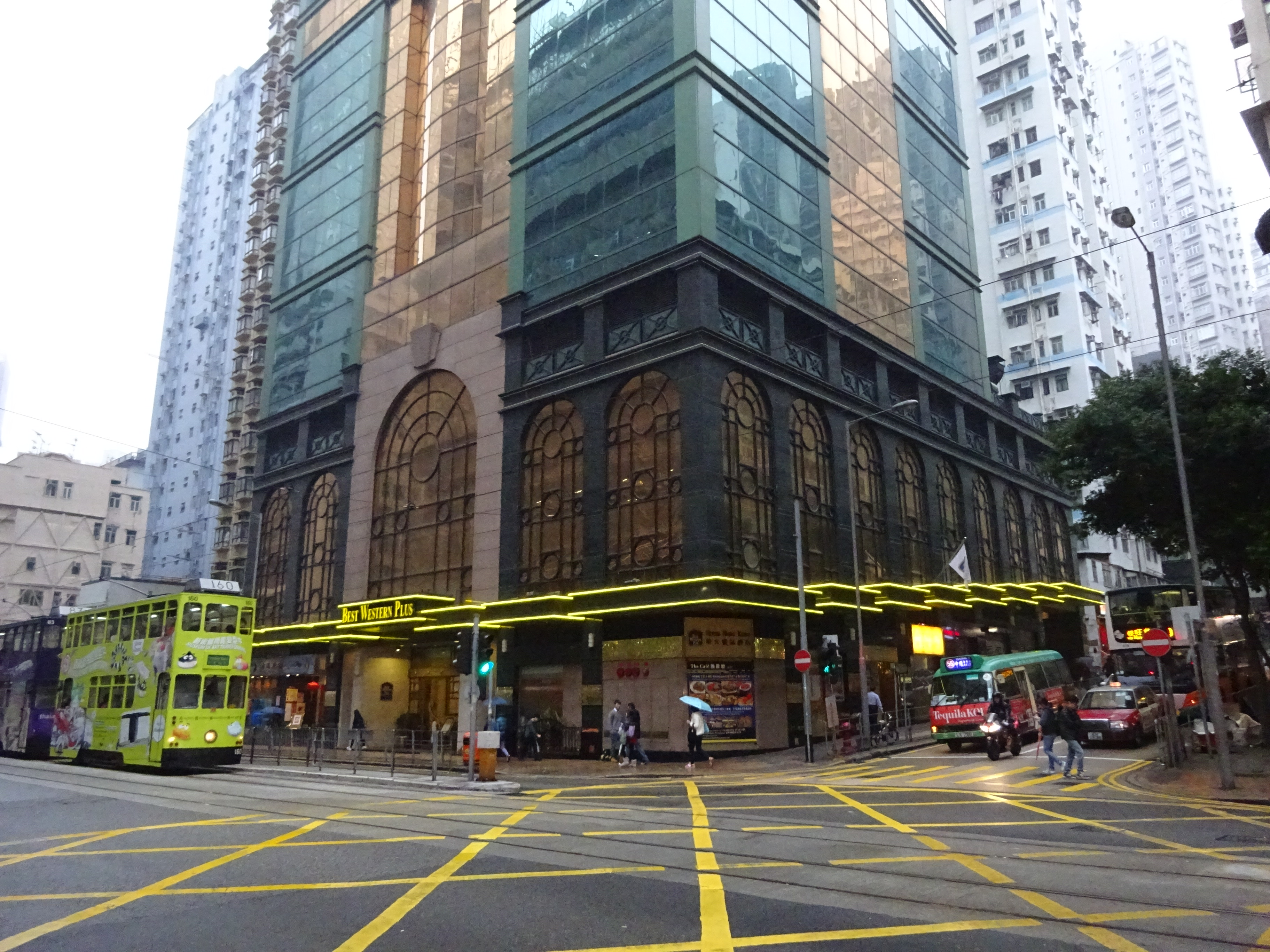 Sai Ying Pun Des Voeux Road West 華大盛品酒店 Hotel Best Western Plus Hong Kong